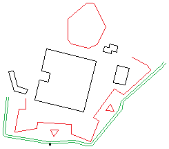 Citadel of Liege in 1978.